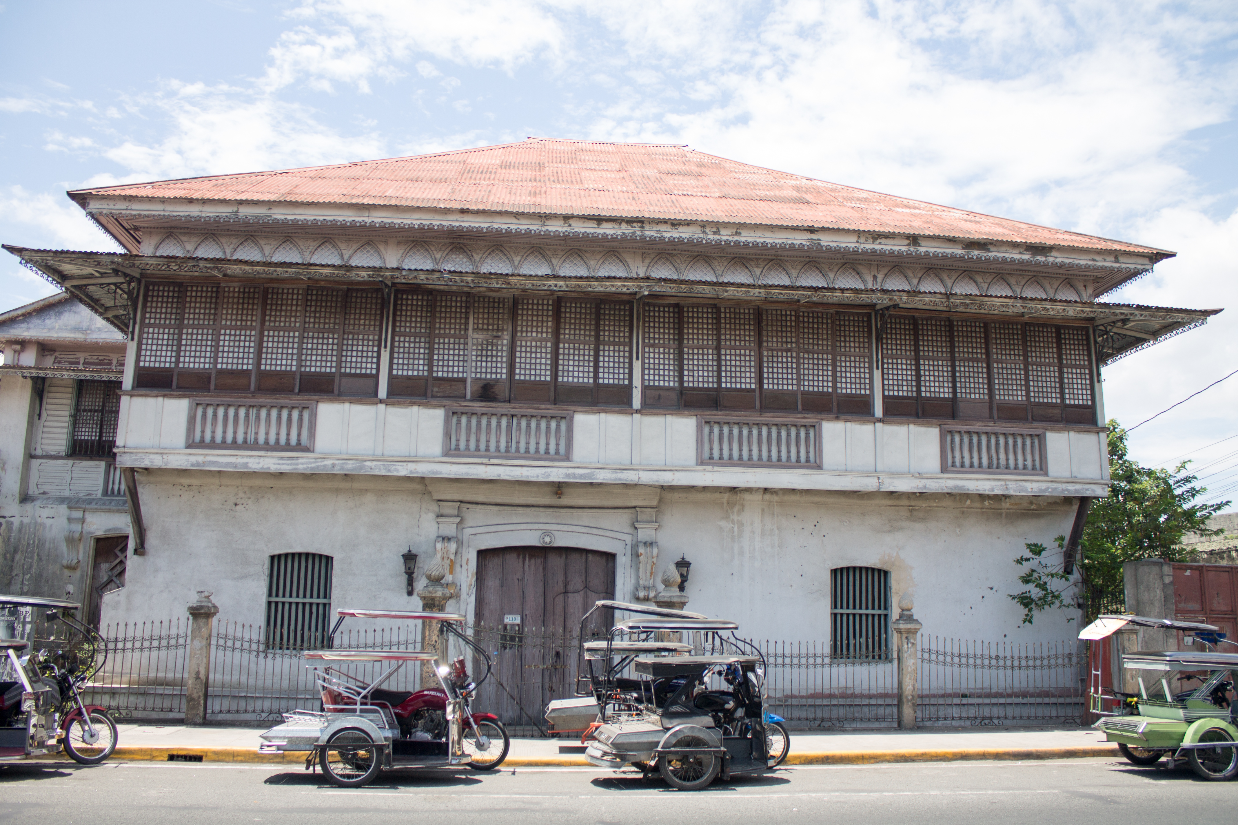 Ancestral house in Calamba, Laguna